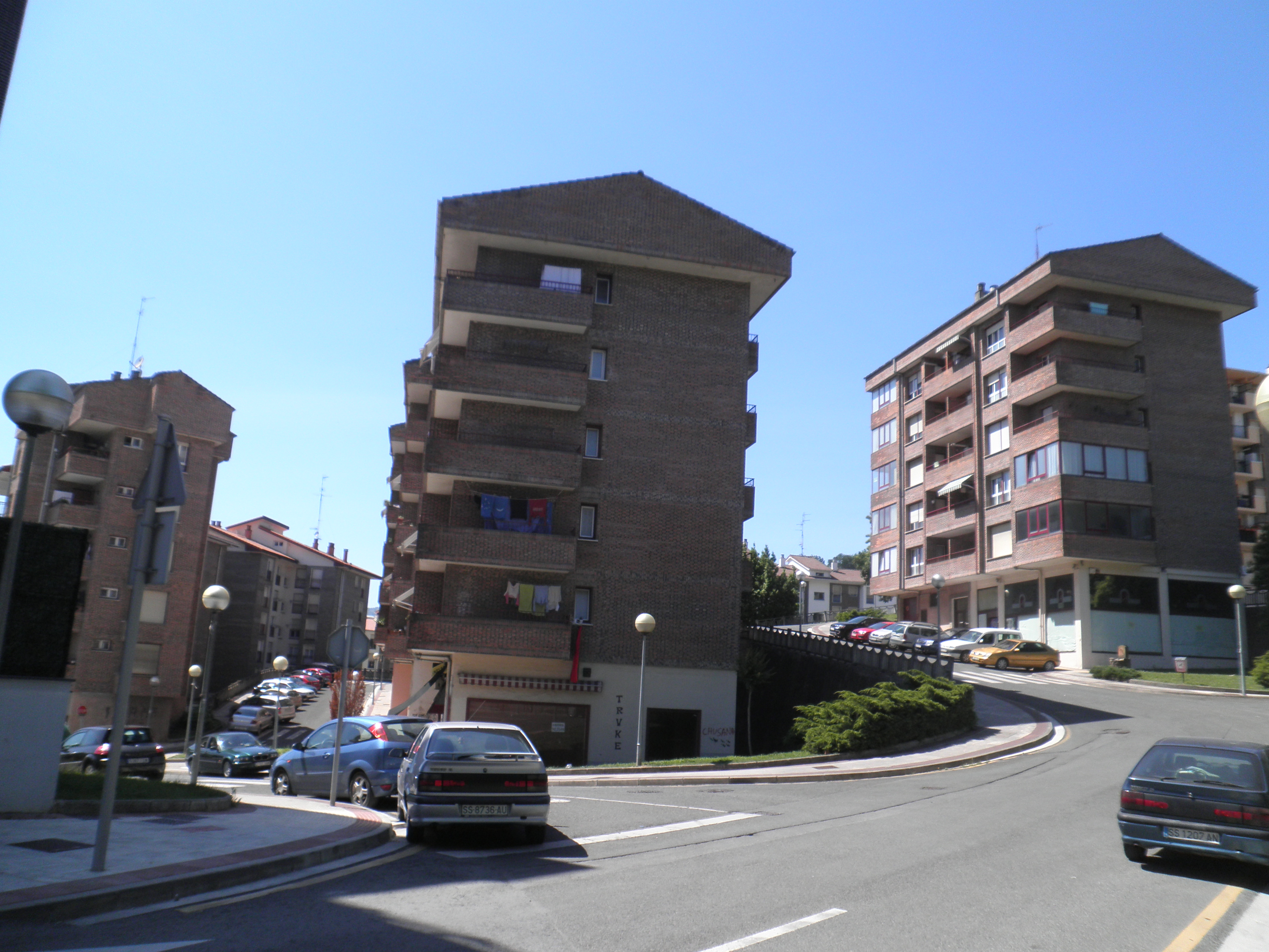 Atxegalde neigbourhood in Usurbil, Gipuzkoa.